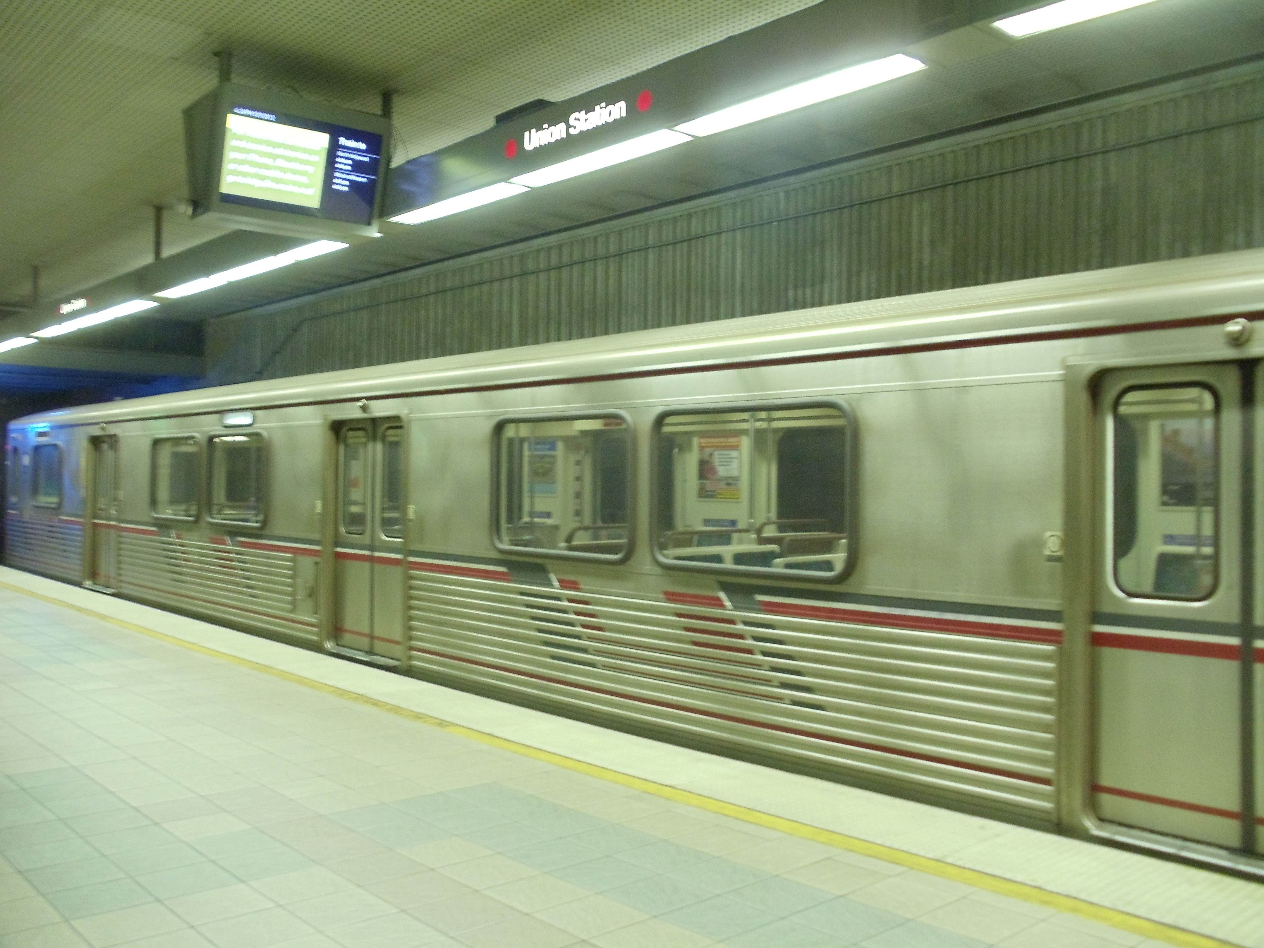 Metro Red Line train entering Union Station.